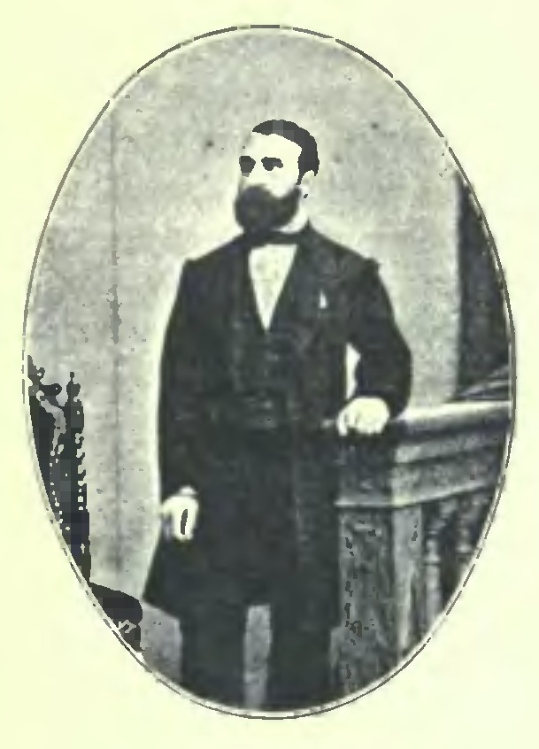 Portrait of Vincenzo Lazari, an Italian numismatist. From "Rivista italiana di numismatica", a numismatic magazin of "Società Numismatica Italiana"